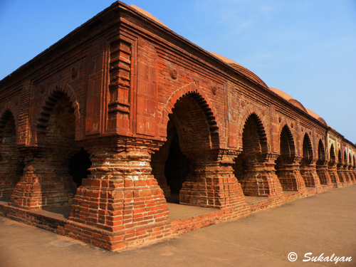 This is the famous rashmancha of Bishnupur which is a architectural splendor.